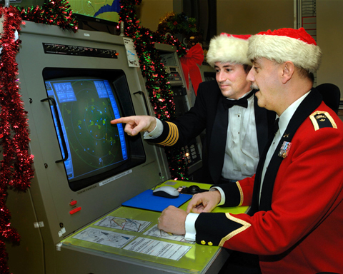 Col Pierre Ruel and BGen Christian Barabé check the radar screen in preparation for tracking Santa Claus.